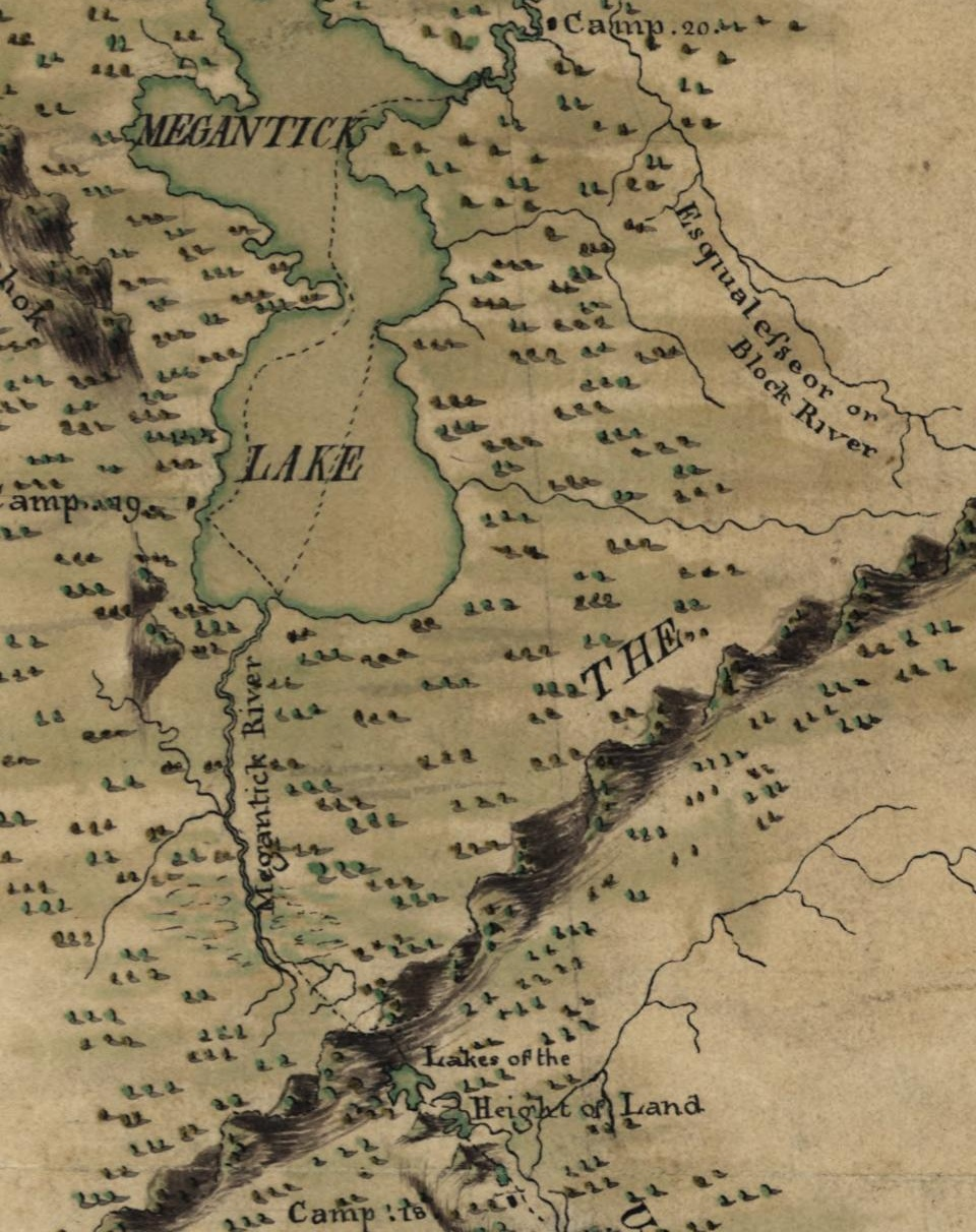 Extract from File:MontresorChaudiereMap1760.jpg, focused on the height of land between the Kennebec and Chaudière River watersheds.